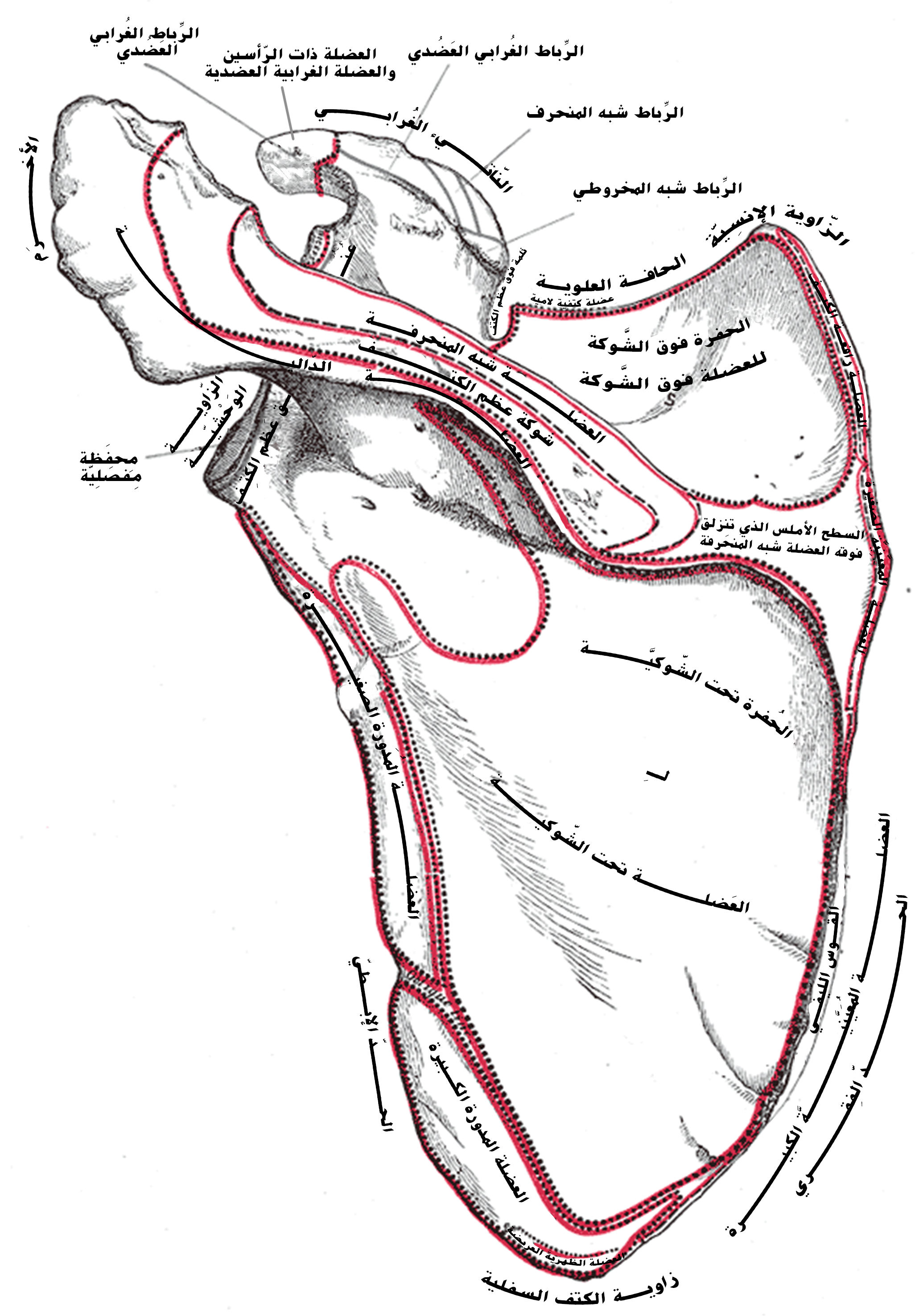 Left scapula. Posterior surface, or dorsum